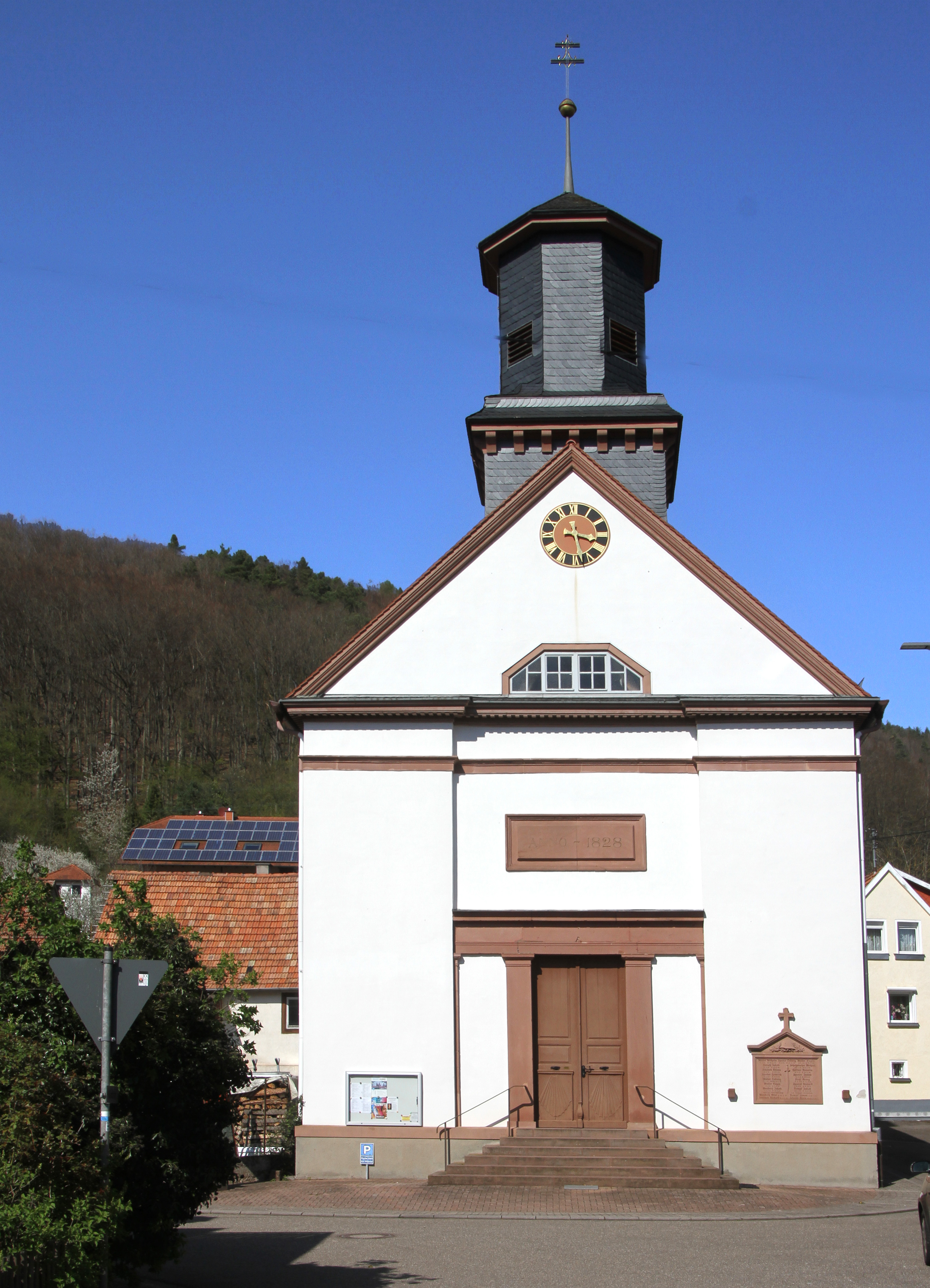 Church of Saint Giles in Waldrohrbach.